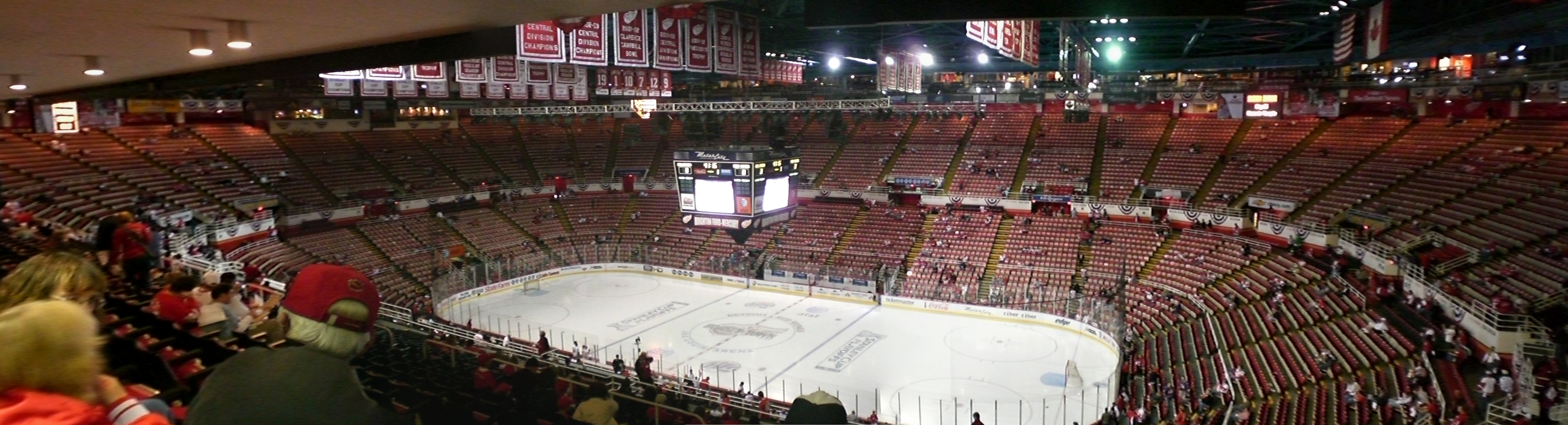 Joe Louis Arena Panorama Photo